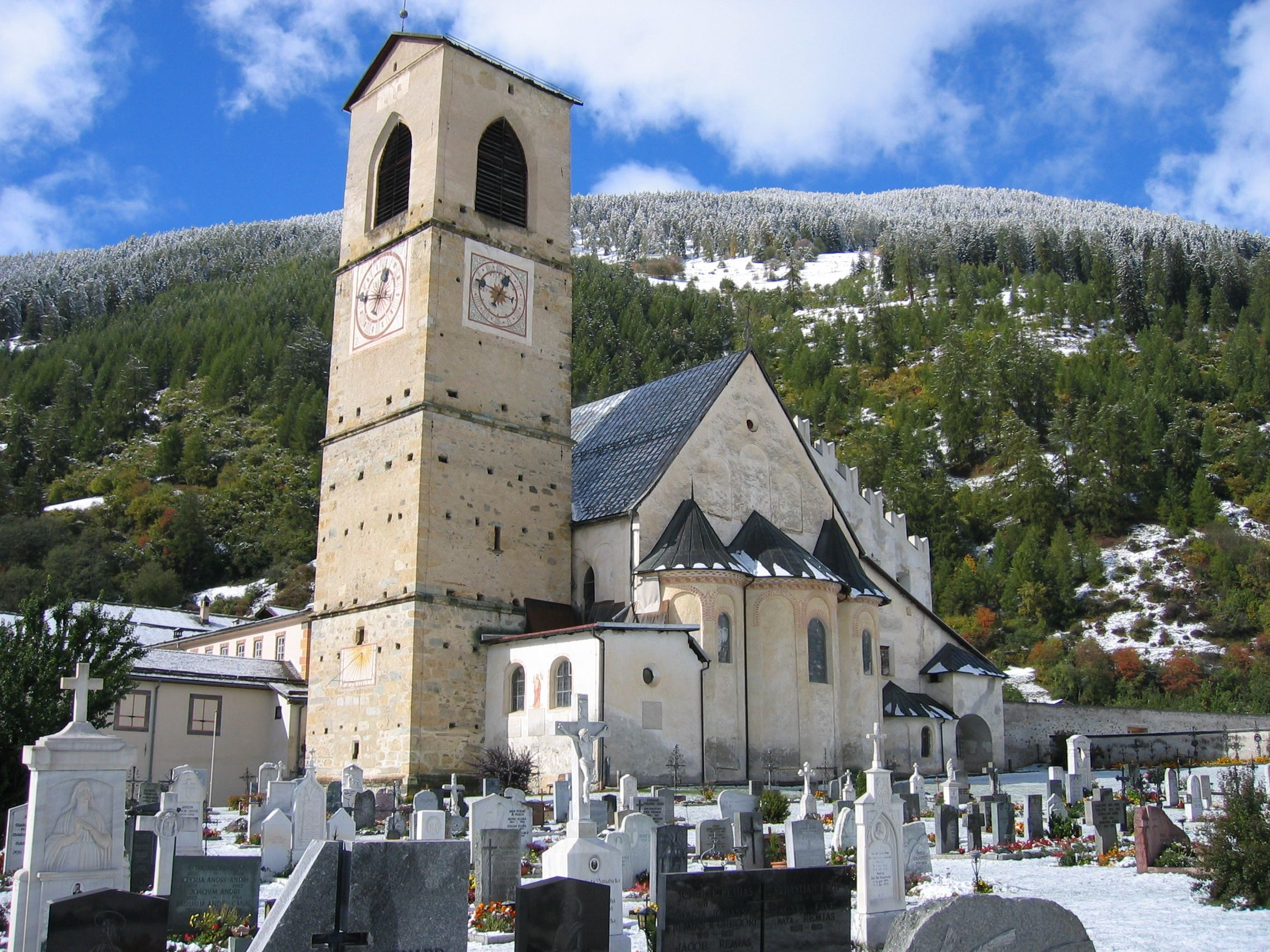 Convent of Saint John in Müstair, Switzerland